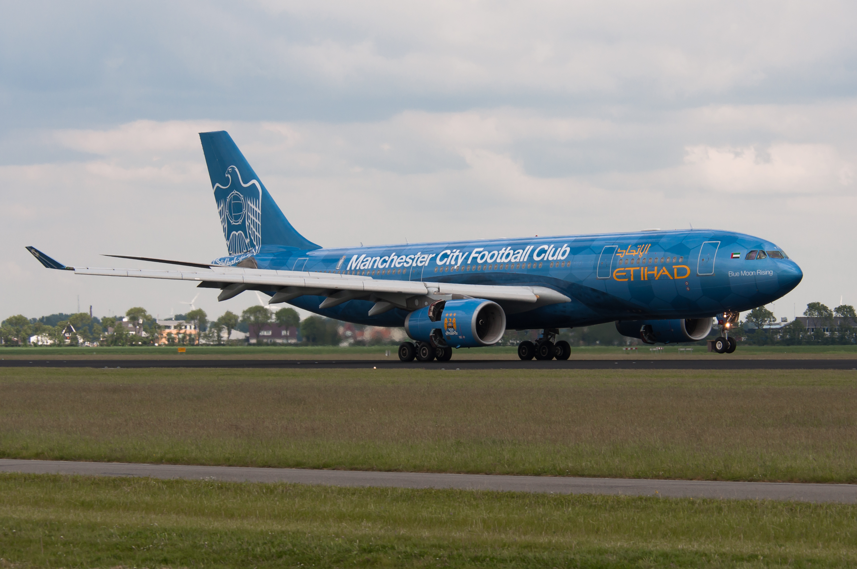 Schiphol, may 2014